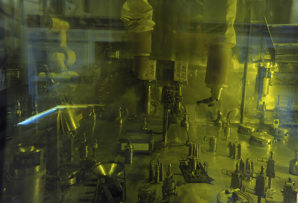 “Scientific Research Institute of Atomic Reactors”. Chemical treatment of processed fuel. The State Scientific Center – Research Institute of Atomic Reactors.